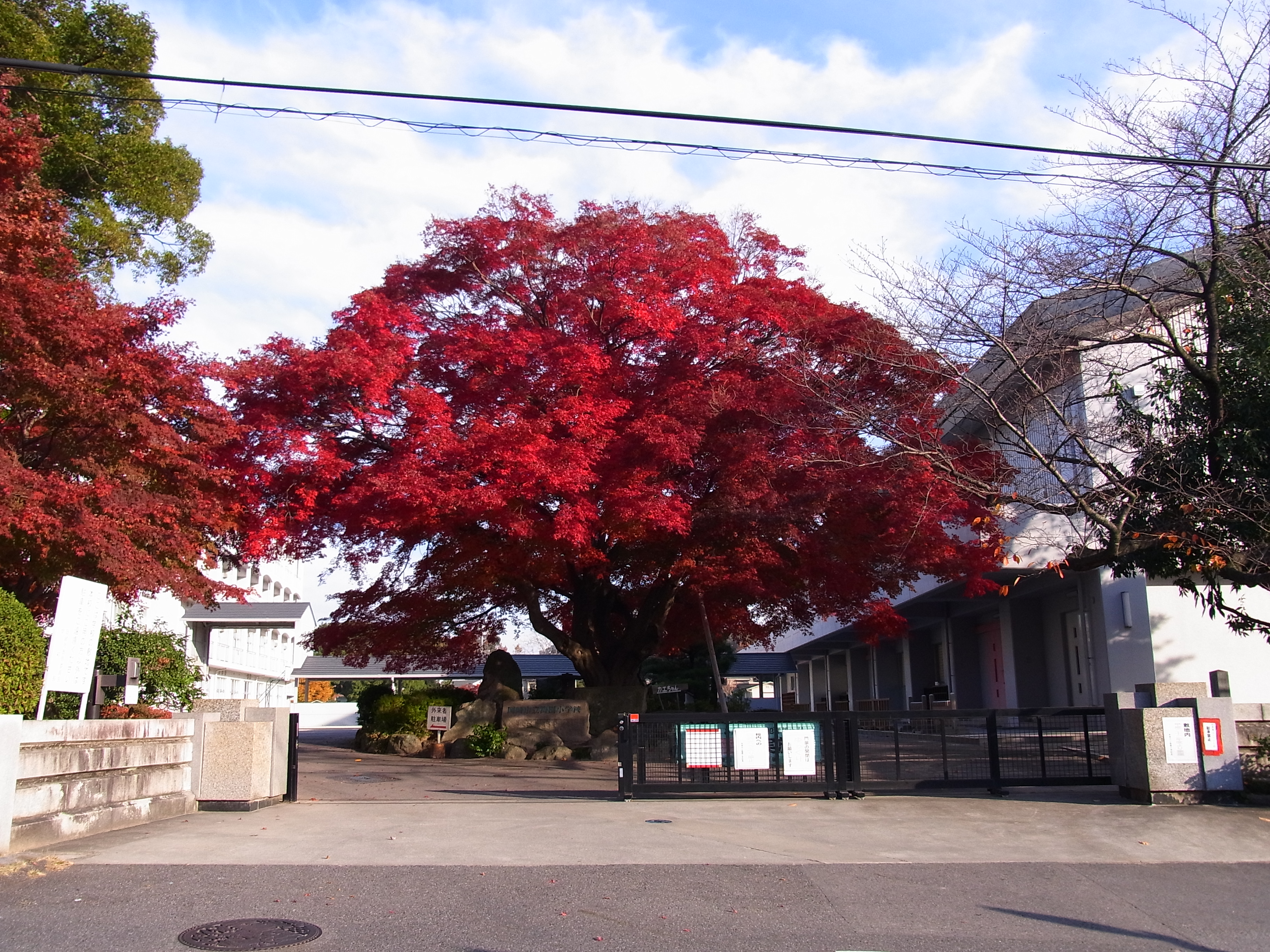 Umezono Elementary School in Okazaki, Aichi.